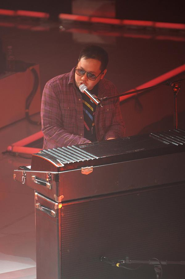 Kero One